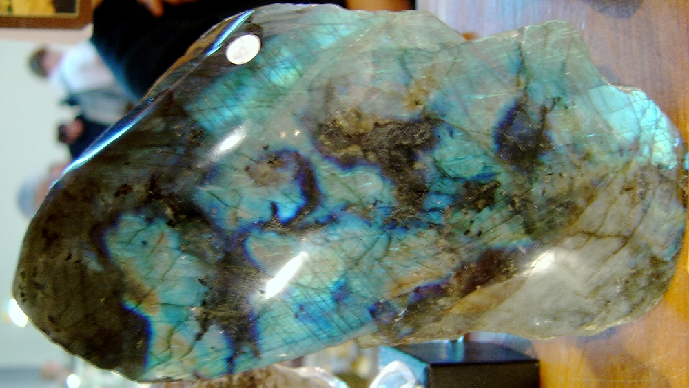 labradorite I took this photo in october 2005